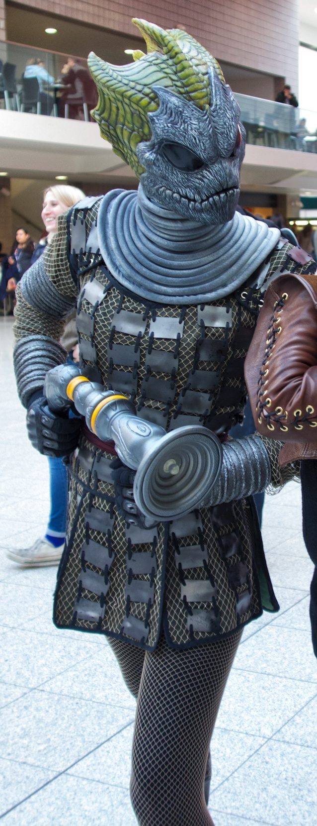 Doctor Who 50th Celebration - Silurian Doctor Who Experience